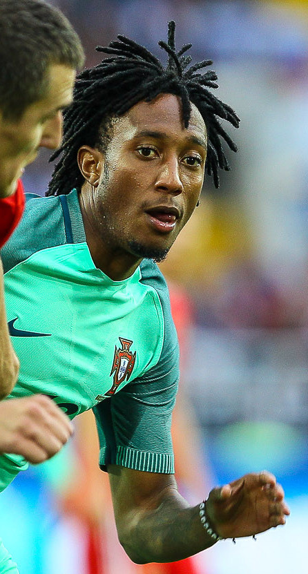 Russia VS. Portugal 0 - 1, 21 June 2017